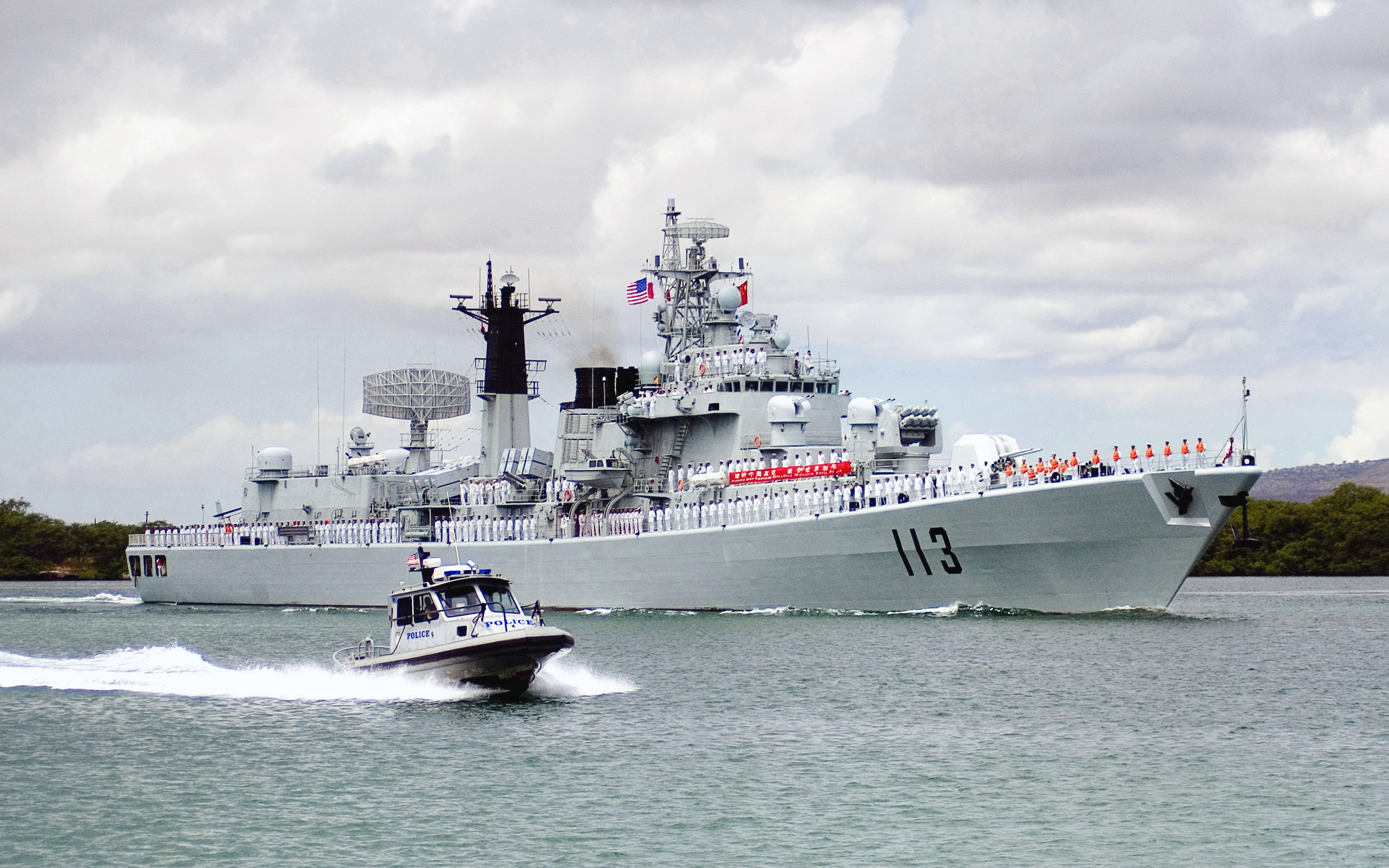 Chinese Navy destroyer Qingdao (DDG 113)